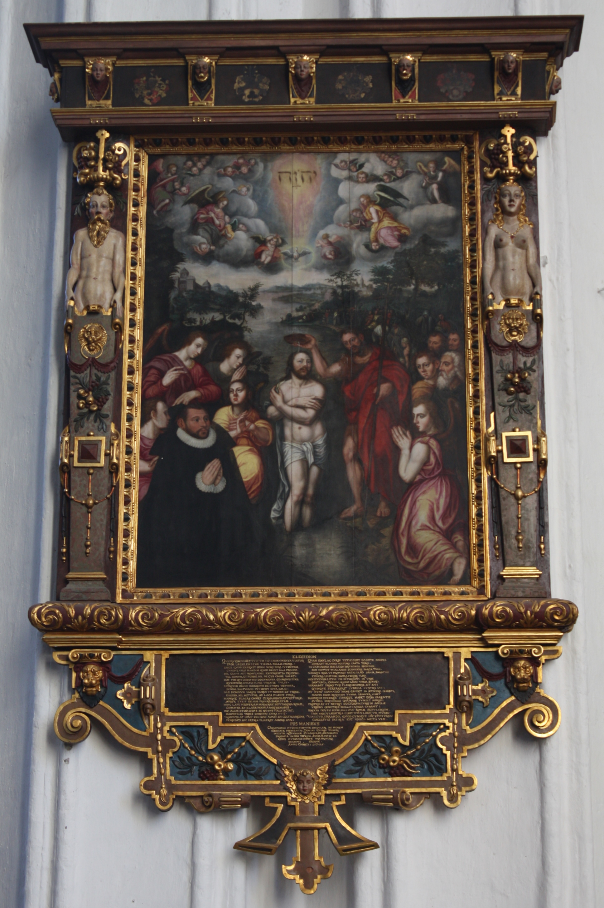 Gdańsk, St. Mary's Church